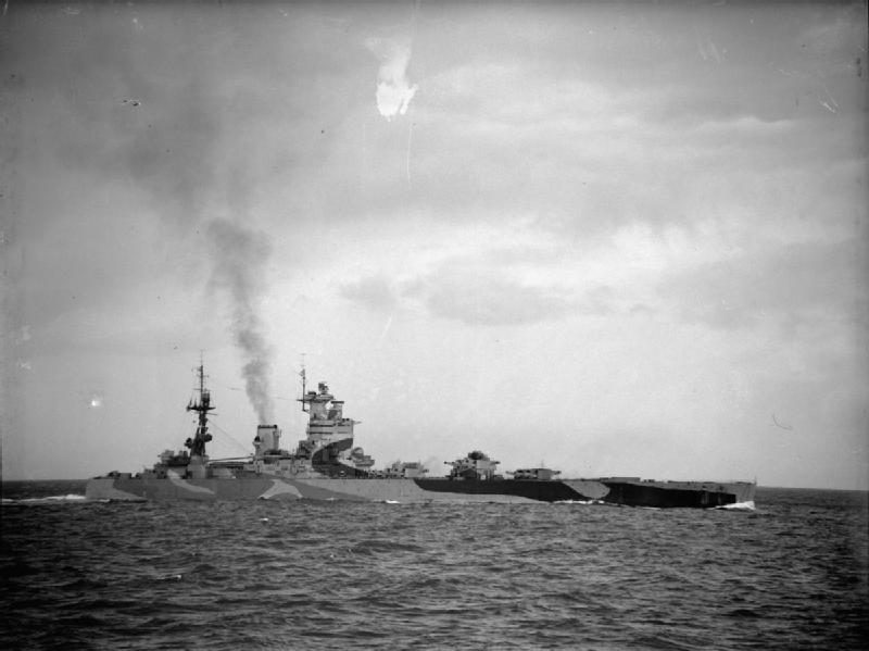 HMS NELSON underway in coastal waters during gunnery trials and exercises after repair. She is closed up with turrets trained to starboard.